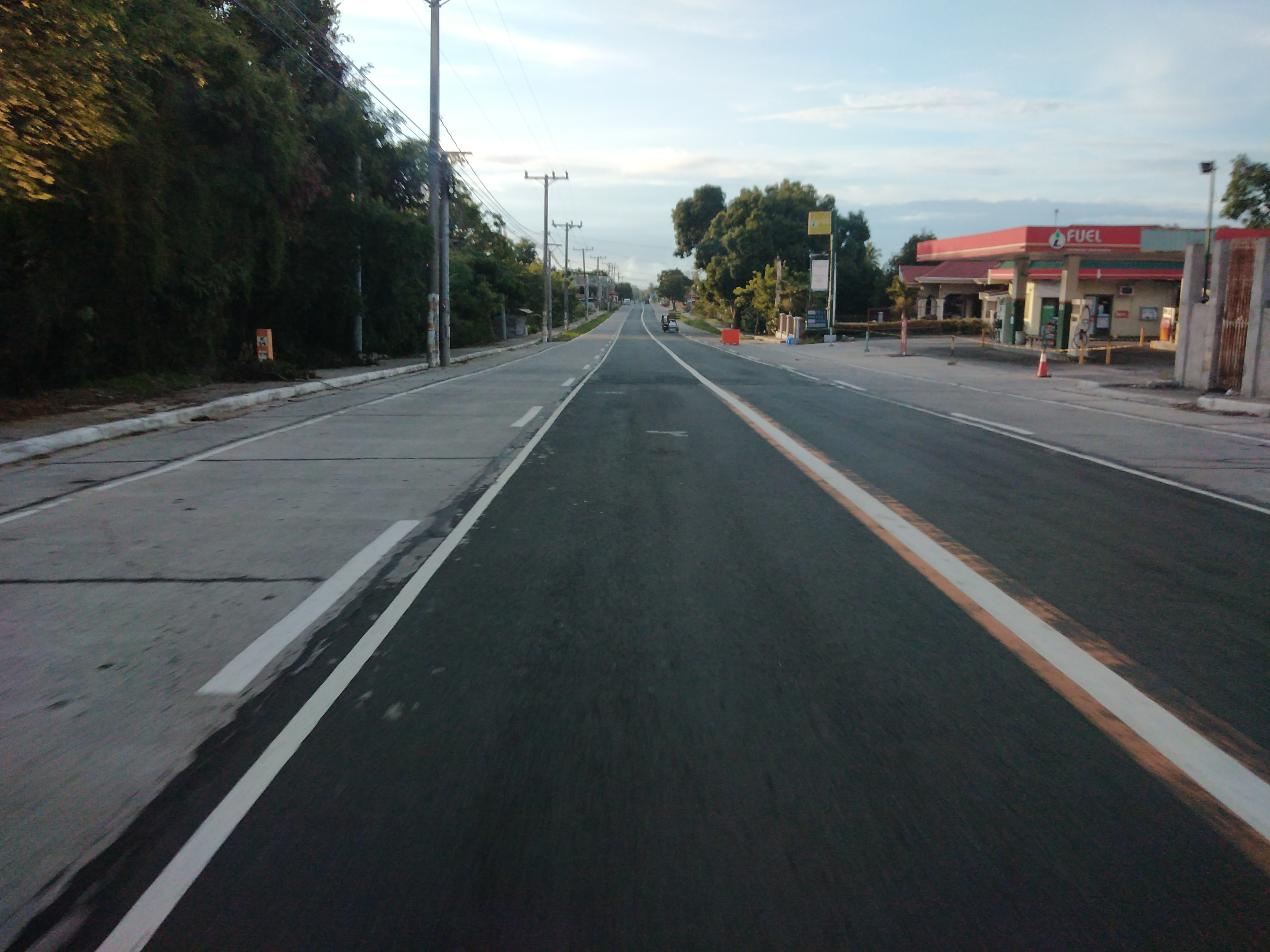 A segment of Trece Martires–Indang Road in Indang, Cavite.